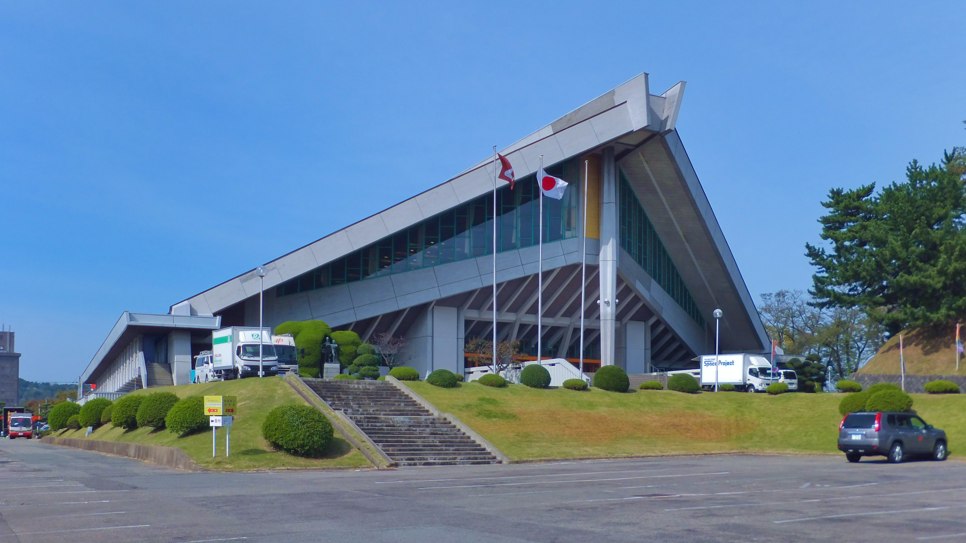 Akita Prefectural Gymnasium in Yabase Athletic Park, Akita